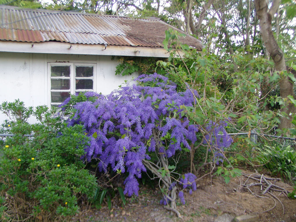 This beautiful shrub in my backyard has just broken in to flower